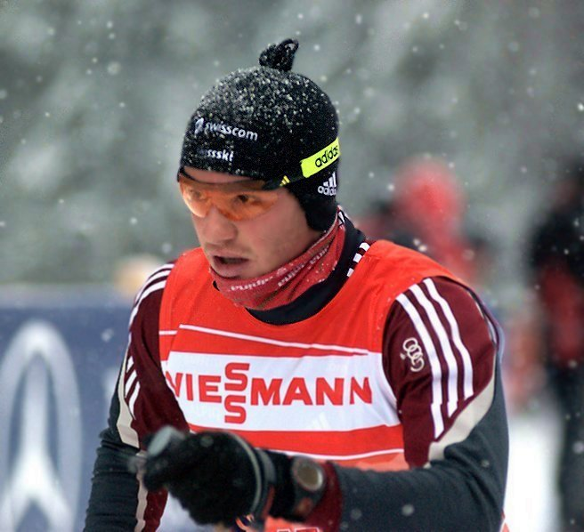 Dario Cologna at the Tour de Ski 2010 in Oberhof